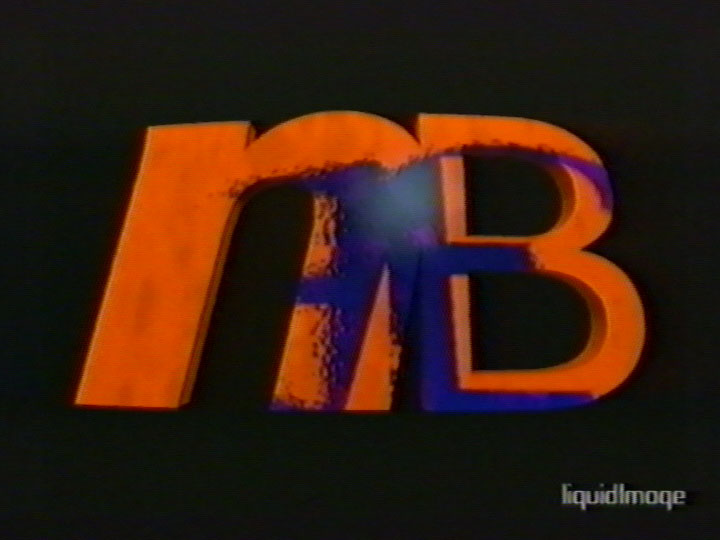 A still frame form the NB title sequence.